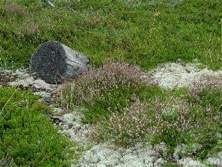 Heath at Øer near Ebeltoft in Jutland